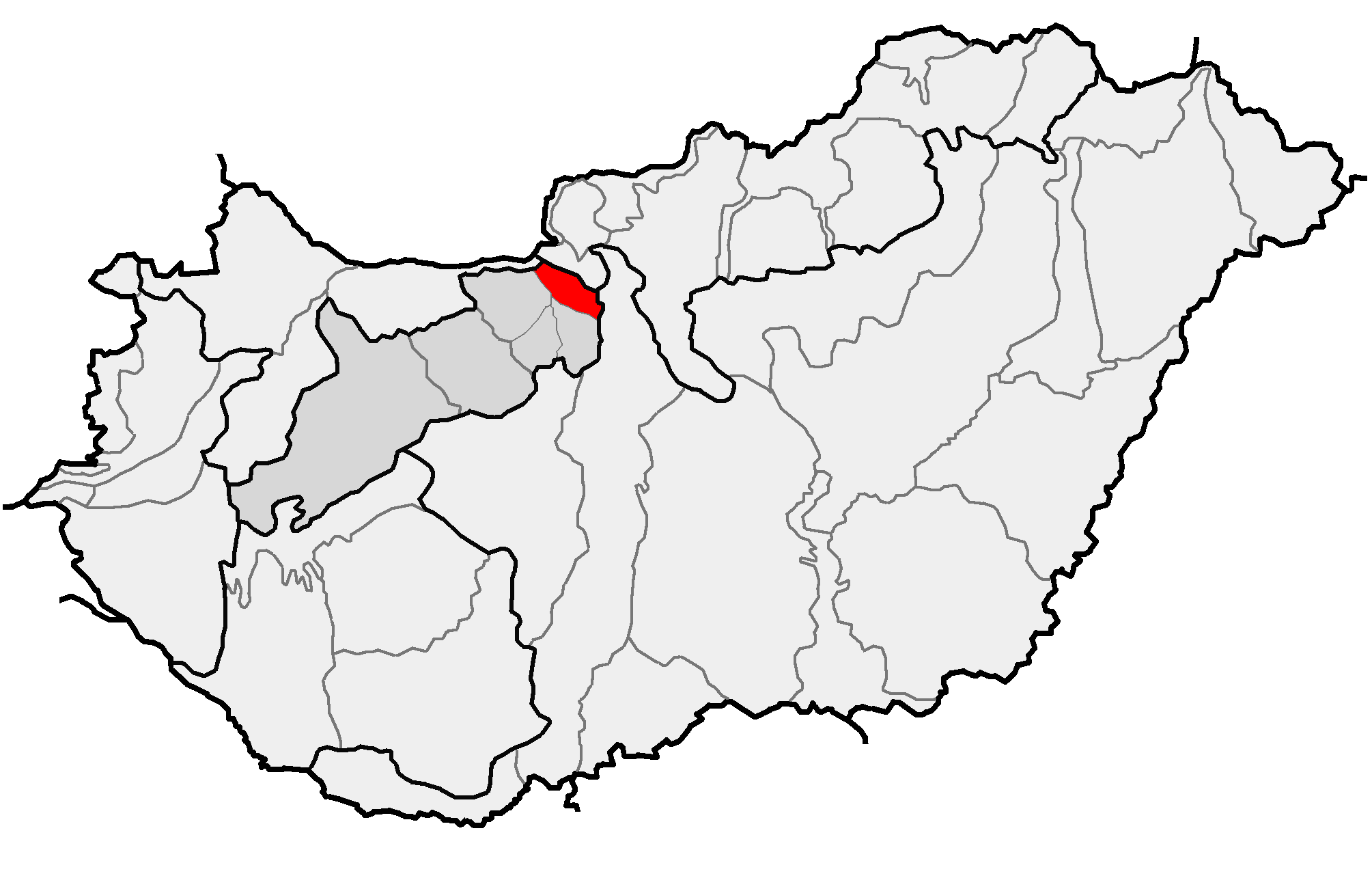 Location of geographical subregion of Pilis hegység (red) and macroregion of Dunántúli-középhegység (gray) within subdivisions of Hungary.